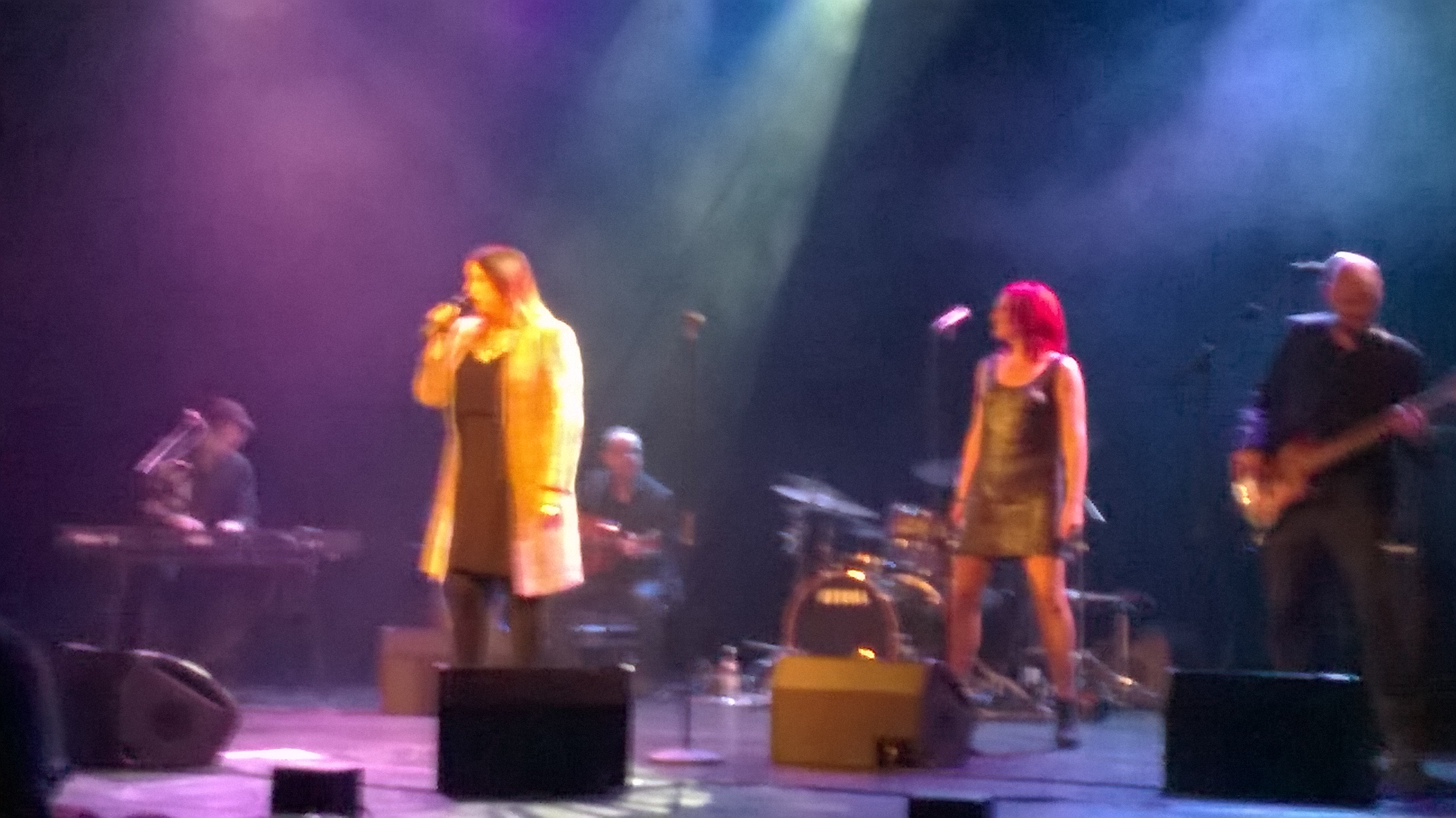 Shirley Clamp gives concert at the Jönköpings Theatre, Sweden 21 February 2015